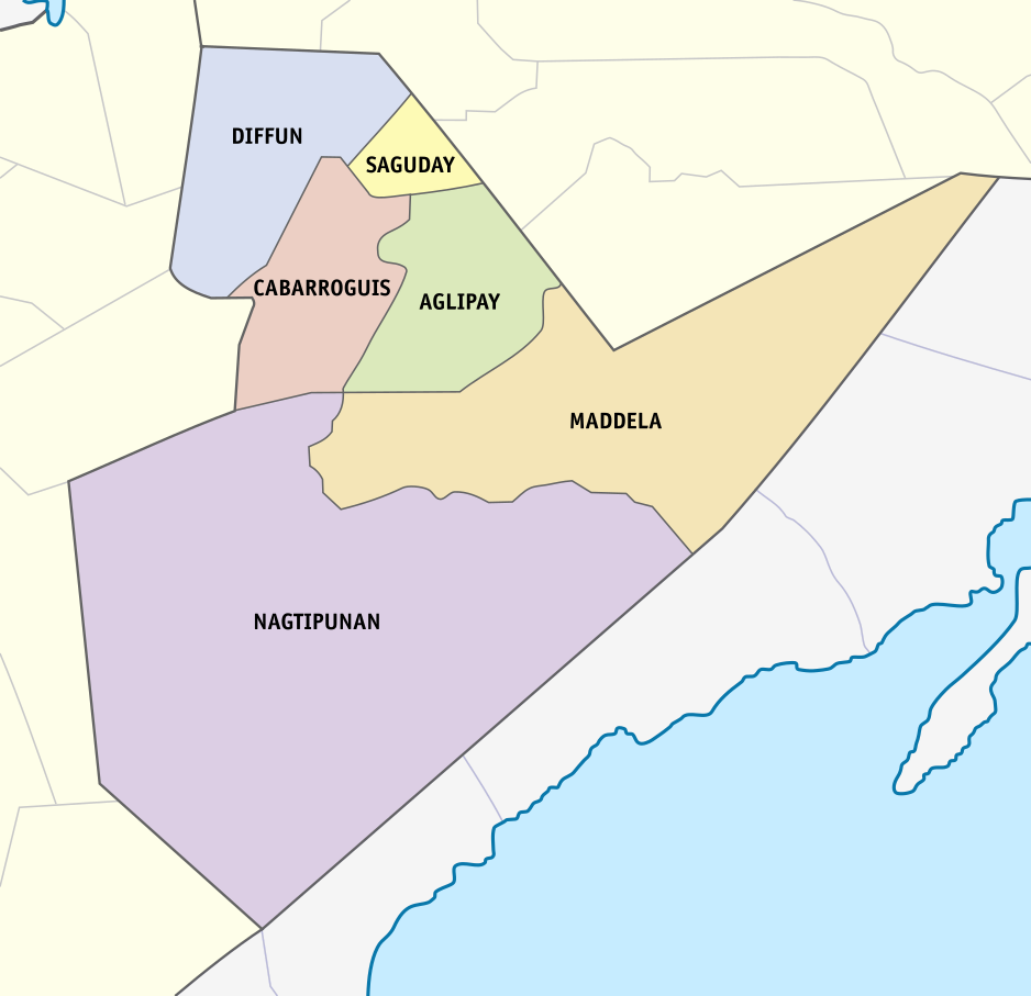 Political map of Quirino.